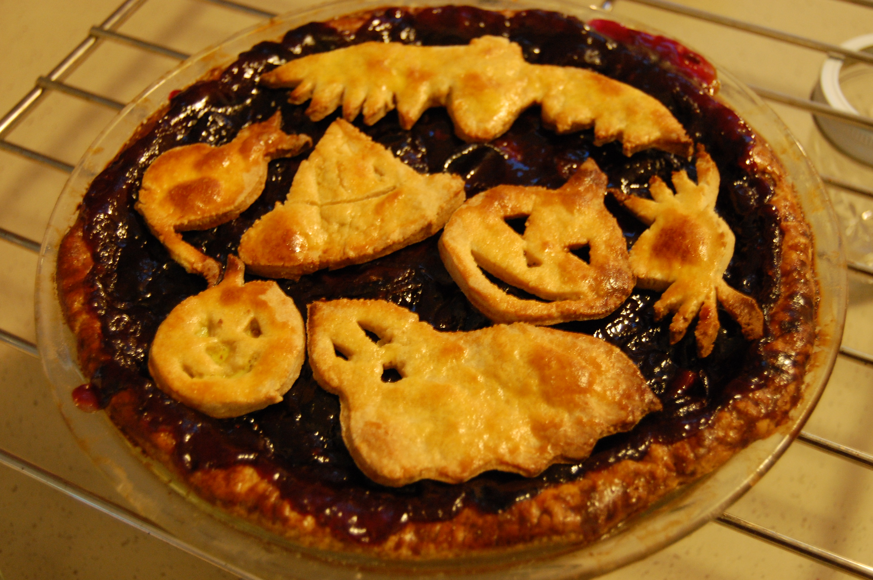 muscadine grape hull pie with the obligatory pie cutouts.